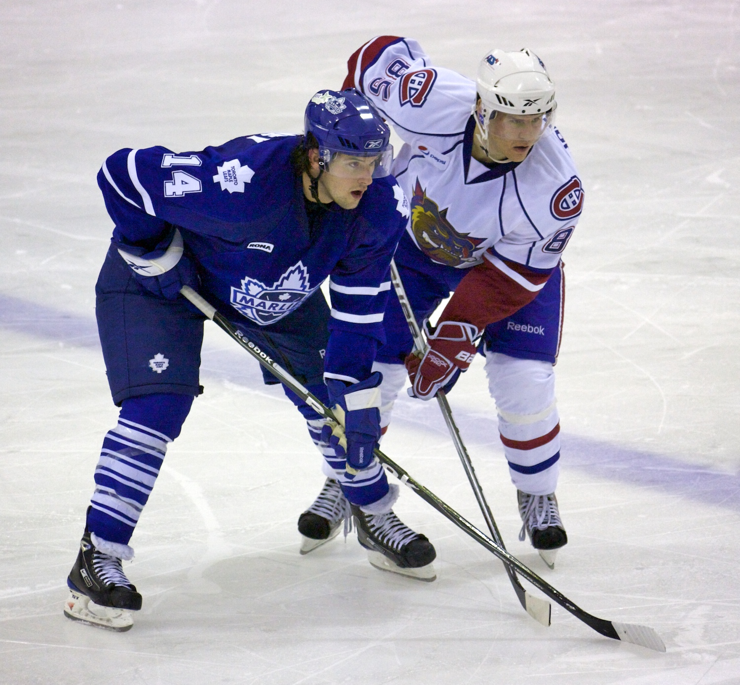 Mikael Johansson of the Hamilton Bulldogs with Robert Slaney of the Toronto Marlies